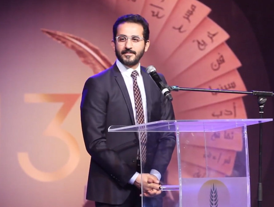 Ahmed Helmy in Sawiris Foundation awards 2018.